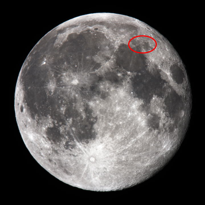 The Location of Lacus_Somniorum, One of the Lunar Geographical Features.